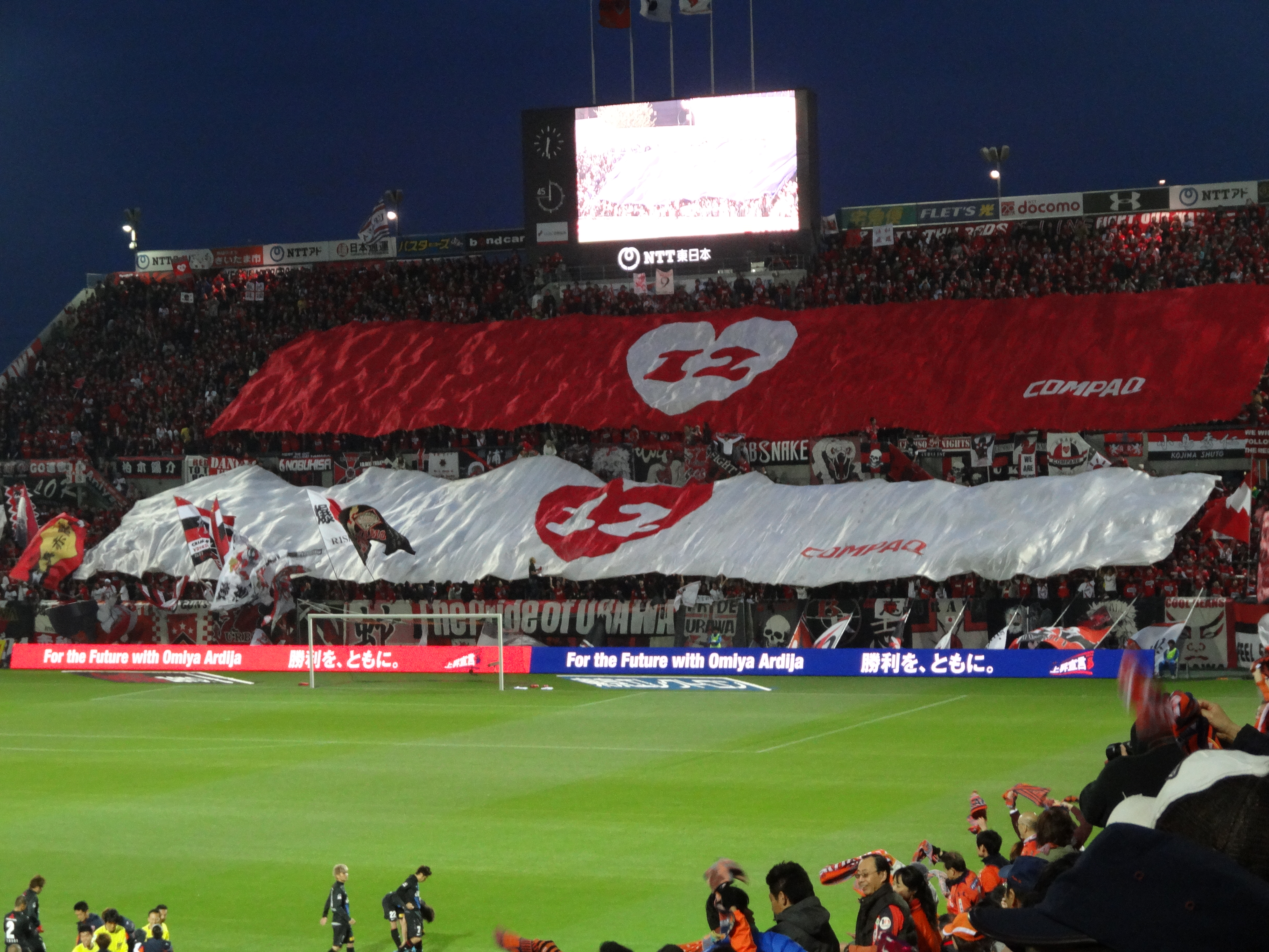 Urawa Reds Choreography in Saitama Derby